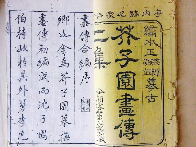 Two pages of Manual of Mustard Seed Garden (Jieziyuan Huazhuan), 2nd Set Frontpiece and preface top, later edition in 1782 published in Sushu,China, color woodblock printing on paper, bound by stitching